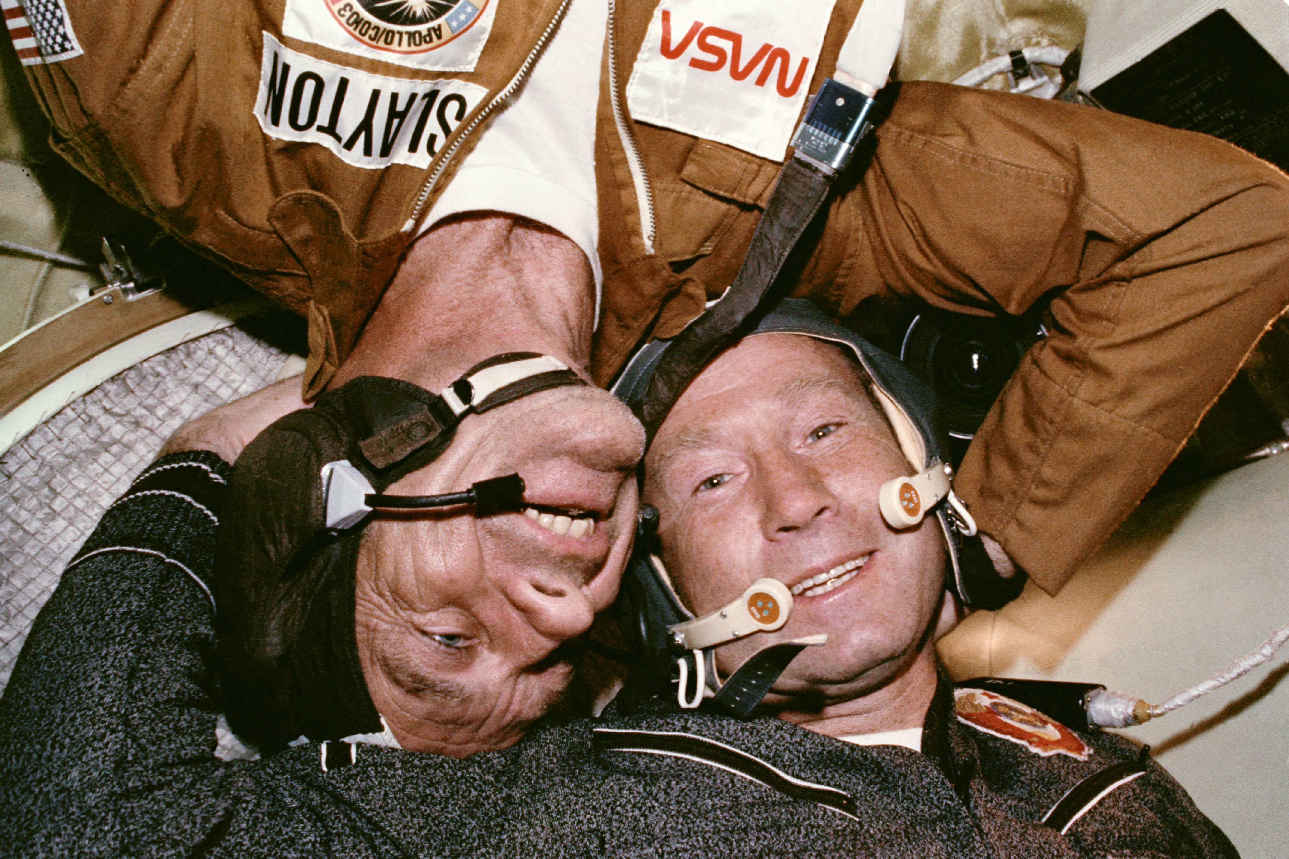 Astronaut Donald K. "Deke" Slayton and cosmonaut Alexey A. Leonov in the Soyuz Orbital Module during the Apollo–Soyuz Test Project. This picture was taken with a 35 mm camera.